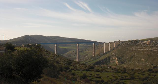 Bridge Irminio ("Viadotto Irminio", aka "Ponte Costanzo") near Ragusa in Sicily. The bridge is part of the national road SS 115.